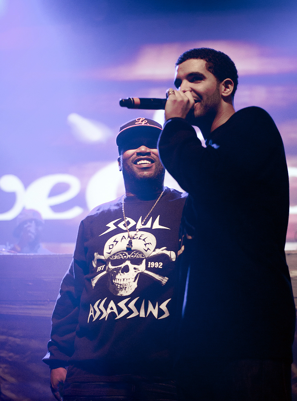 Drake and Bun B at the Sound Academy, Toronto, Ontario, Canada.